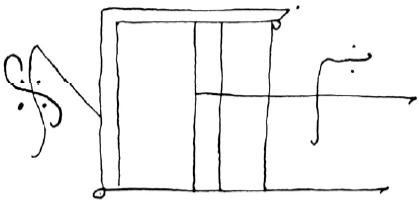 Signature of Alfonso VI, King of Leon and Castile, 1097